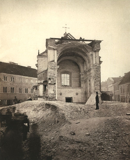 St. Joseph the Betrothed Church in Vilnius being demolished by the tsarist authorities in 1877 to enforce Russification policies.